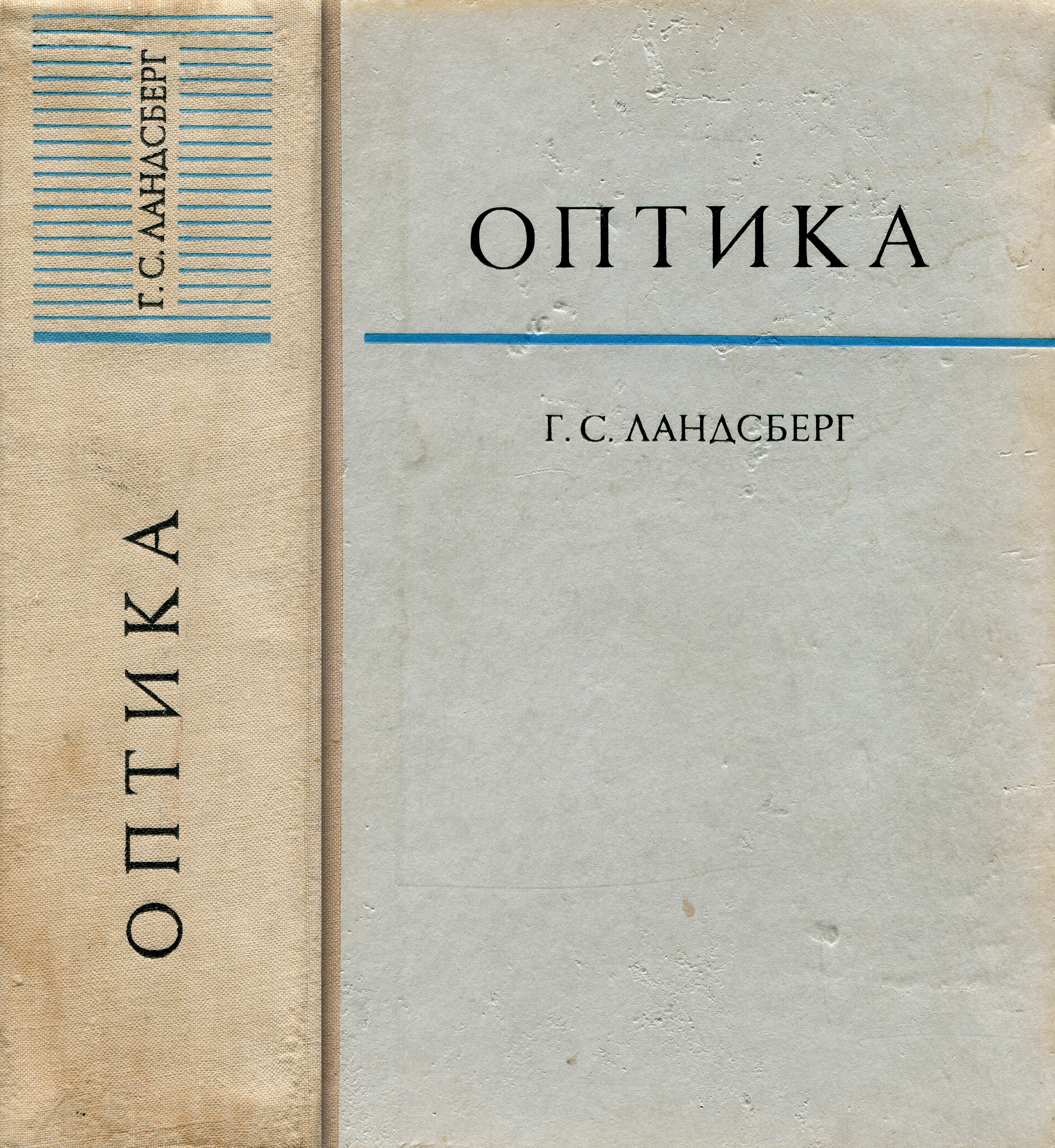 Book. Grigory Landsberg. Physics.